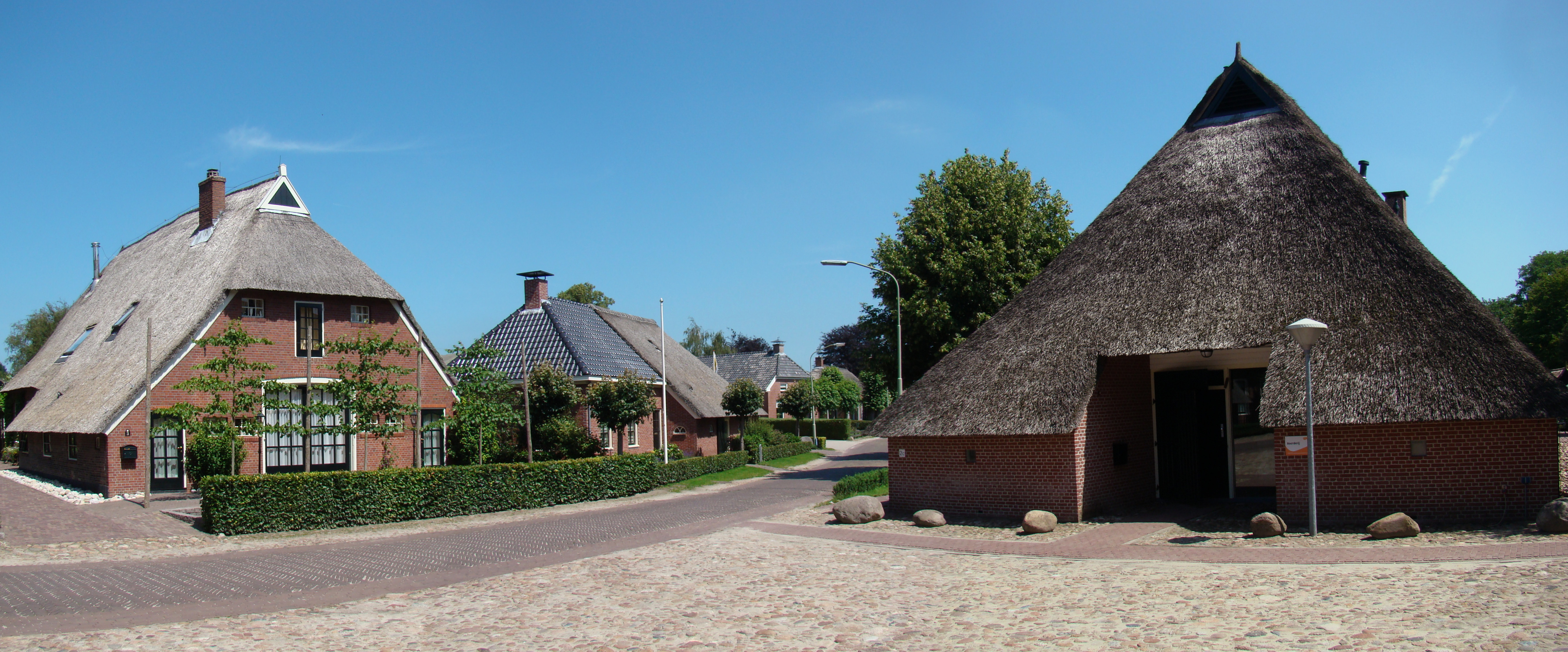 Impressions of Borger (Netherlands)